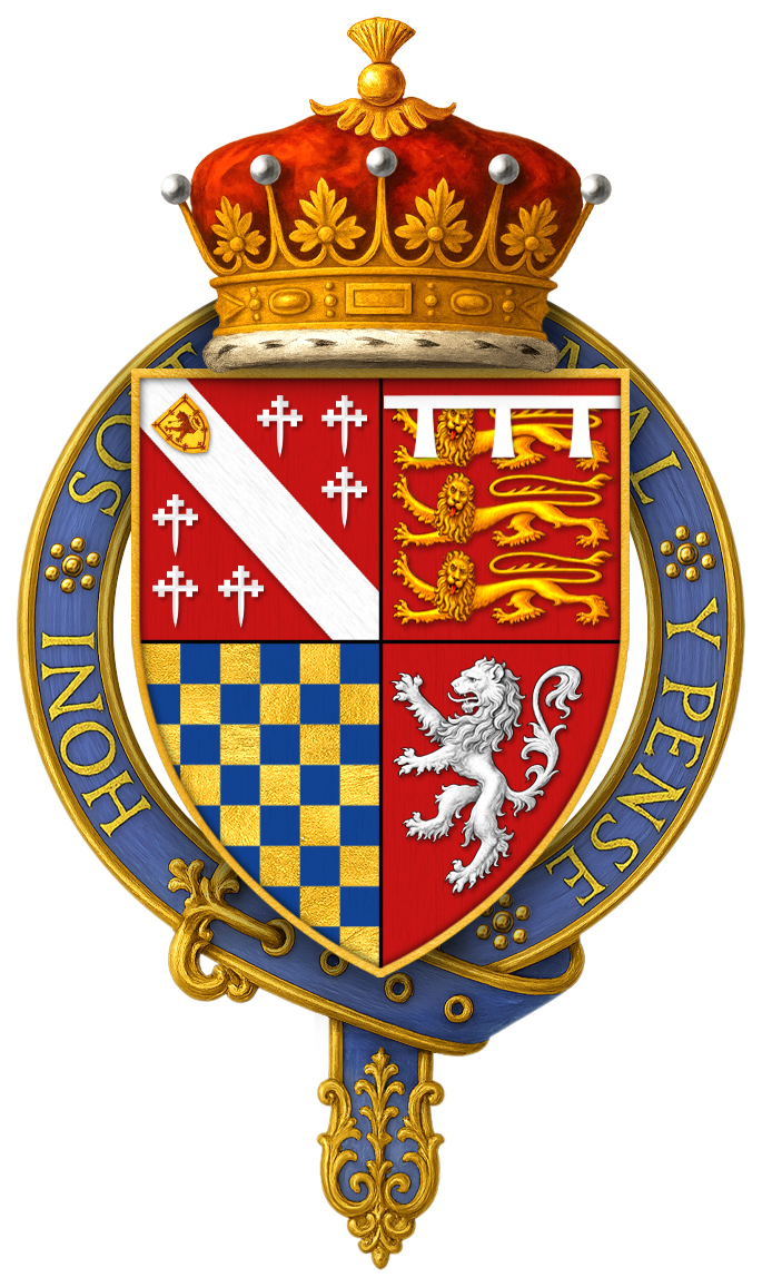 Coat of arms of Sir Henry Howard, styled Earl of Surrey, KG